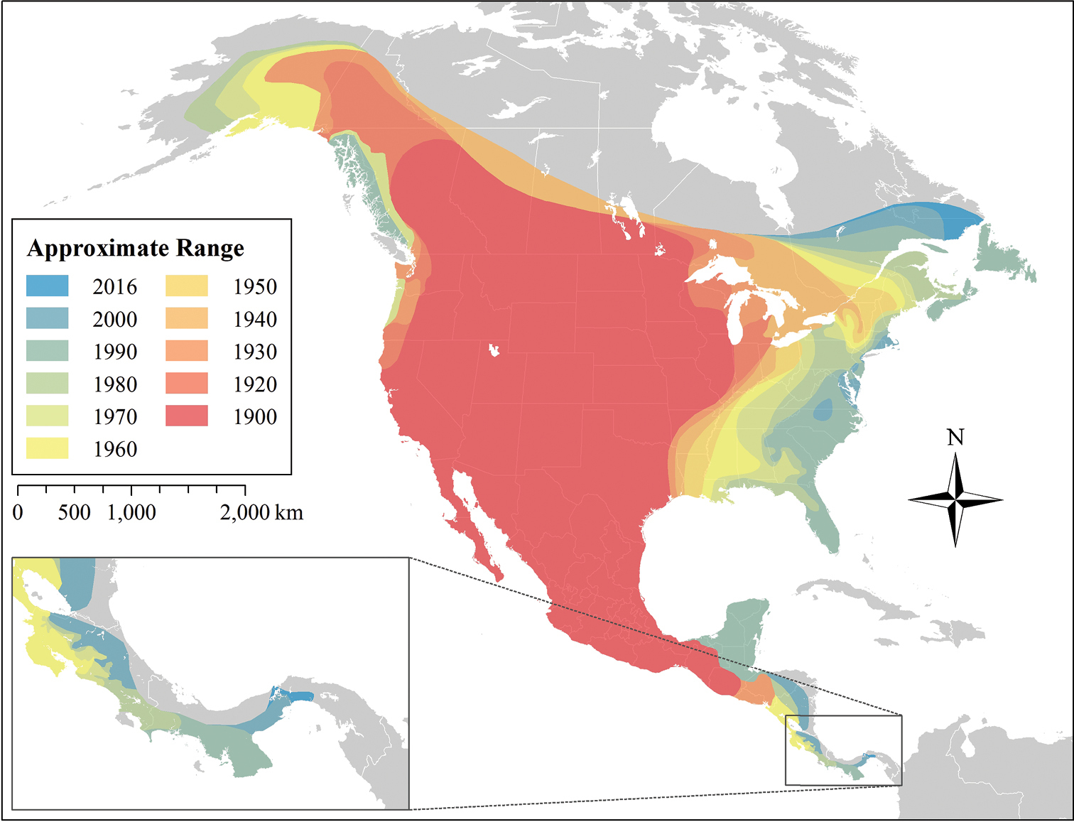 Coyote expansion over the decades since 1900